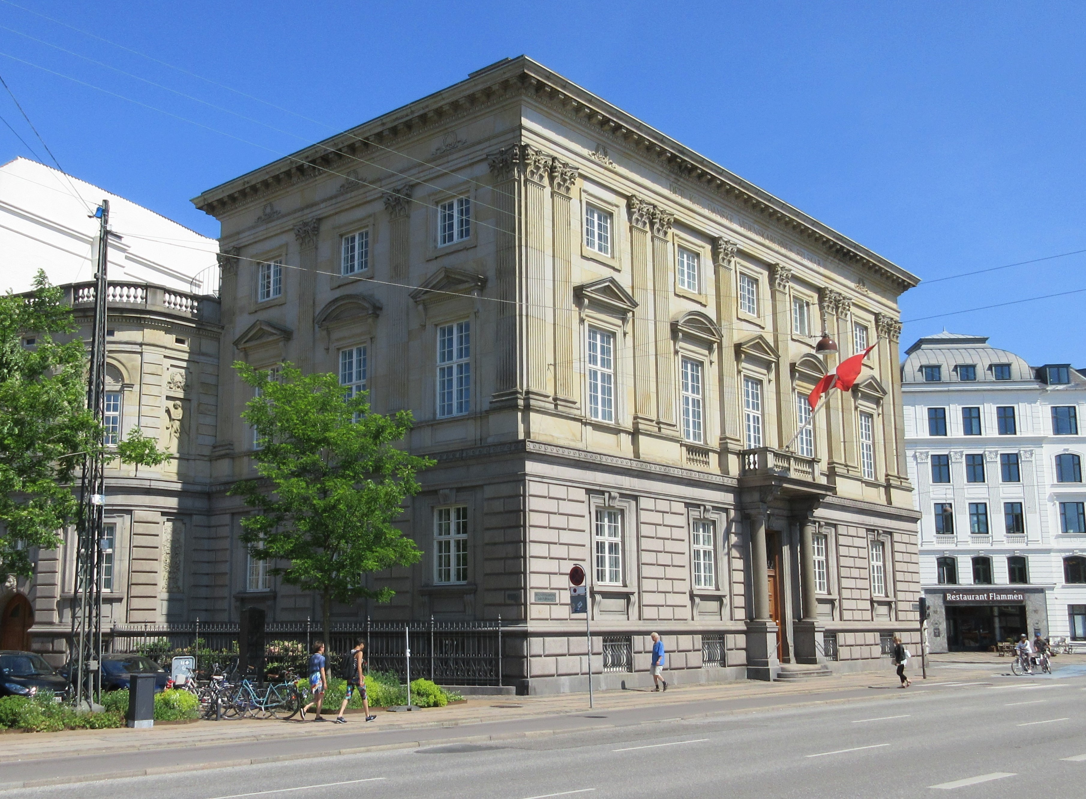 The Videnskabernes Selskab building at the corner of Dantes Plads and H. C. Andersens Boulevard in Copenhagen, Denmark